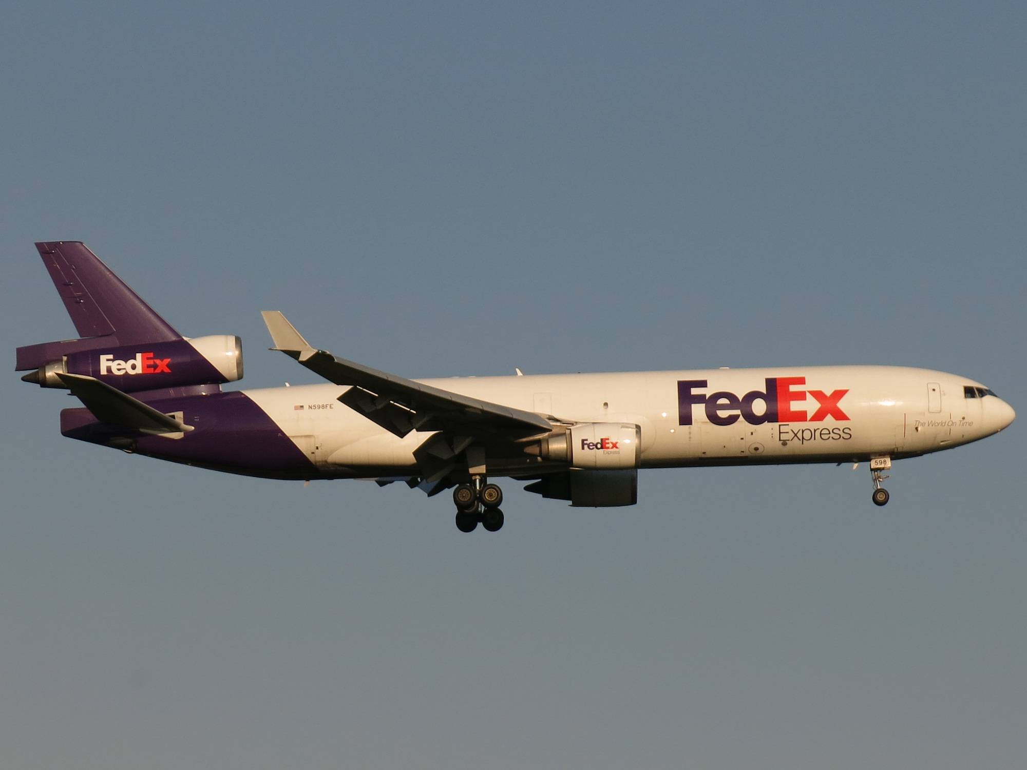 FedEx Express McDonnell Douglas MD-11BCF N598FE (formerly American Airlines N1766A) is on short final to JFK, approaching Runway 22L, completing Flight 764.